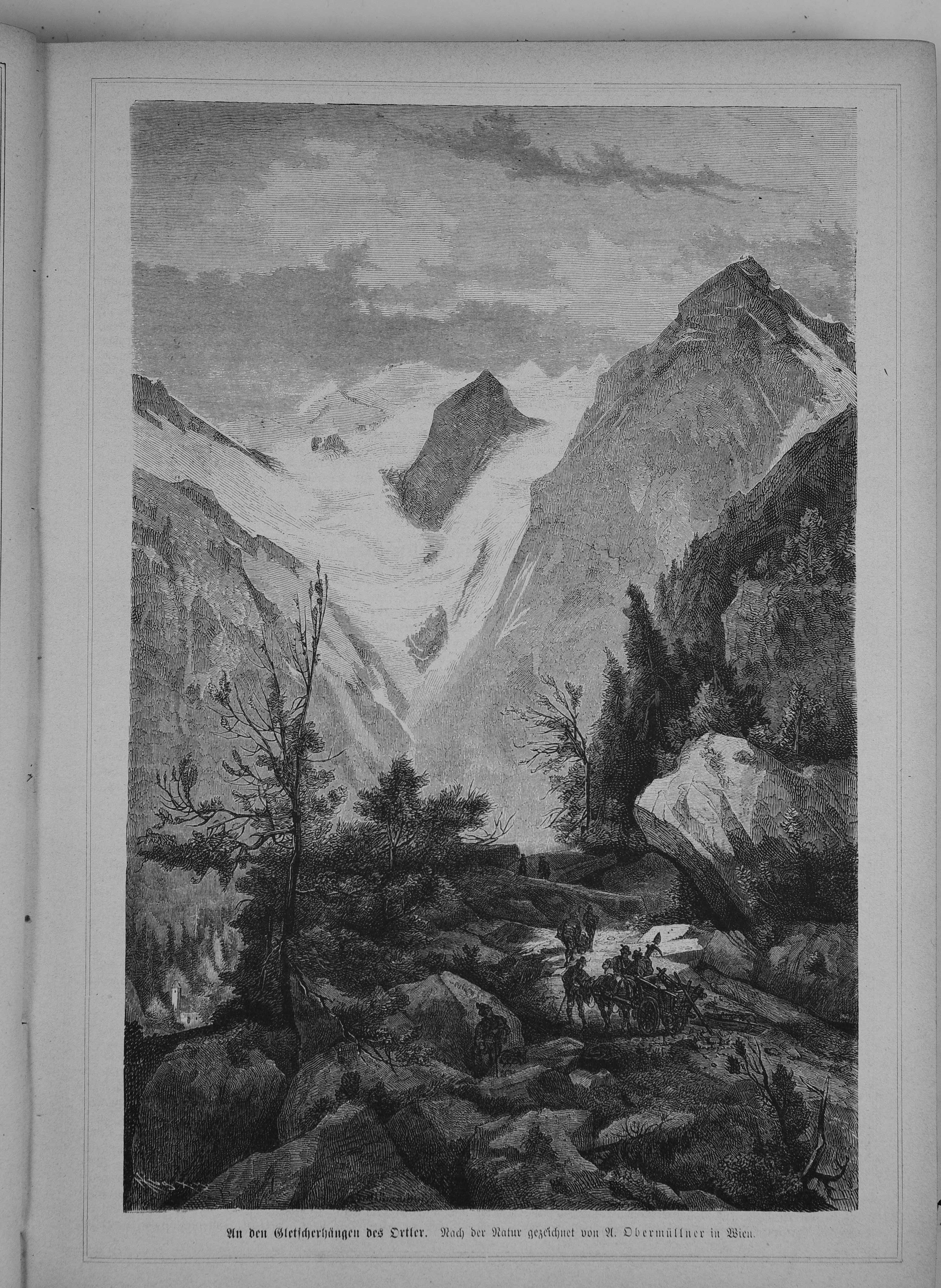 Page 53 from journal Die Gartenlaube for 1877.Extracted image (if any): File:Die Gartenlaube (1877) b 053.jpg - hi res, ~2.5 MB.